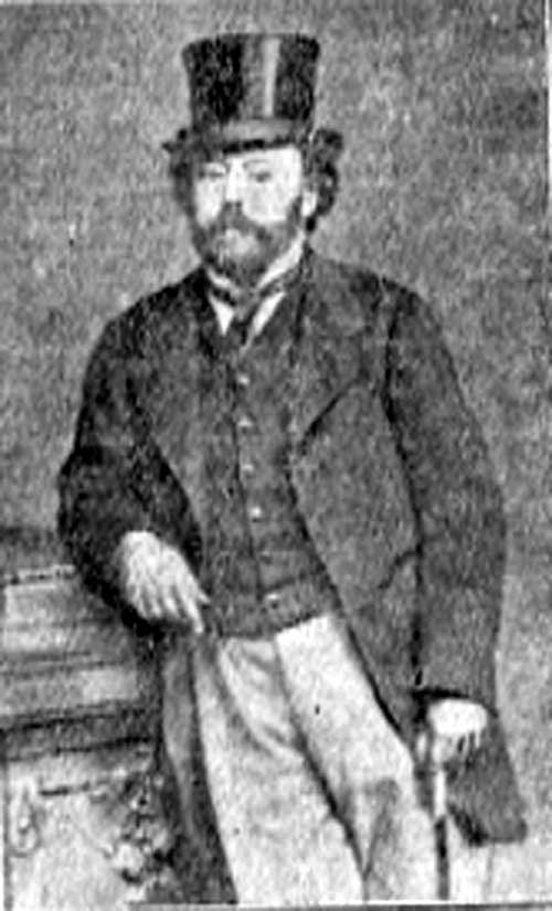 Portrait of architect Cuthbert Brodrick (1821-1905), designer of Leeds Town Hall, and Leeds Corn Exchange, West Yorkshire, England.